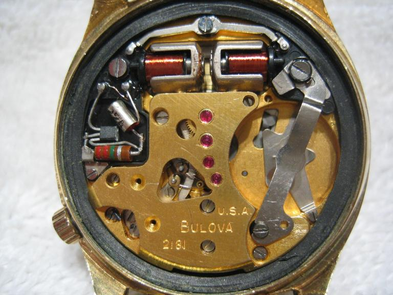 Photo by Jim Rees